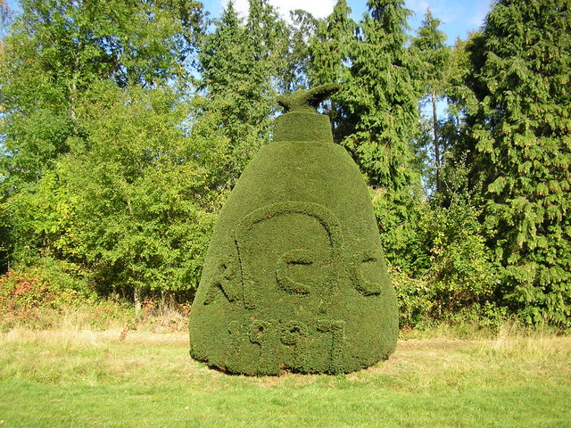 Clipsham Yew Tree Avenue — the "Rutland County Council" topiary. To commemorate the creation of Rutland County Council as a unitary authority in 1997. Located in the Clipsham Hall Park, near Clipsham, England.